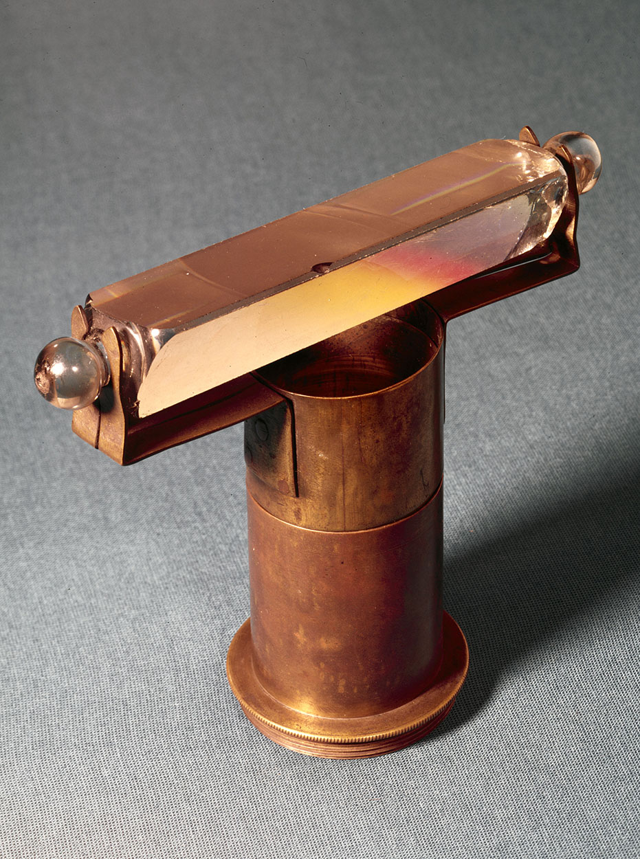 Glass prism, mounted at end of a brass tube, used by Sir William Herschel (1738-1822) in experiments on thermal radiation in the solar spectrum. Herschel, the German-born British astronomer, constructed his own telescope after taking up astronomy as a hobby. As well as famously discovering the planet Uranus in 1781 and two of its satellites, Herschel performed a major study of Saturn, during which he discovered two satellites, the rotation of the planetary rings and the period of the planet's rotation. He also catalogued and investigated the motions of binary stars, the results of which are still in use.